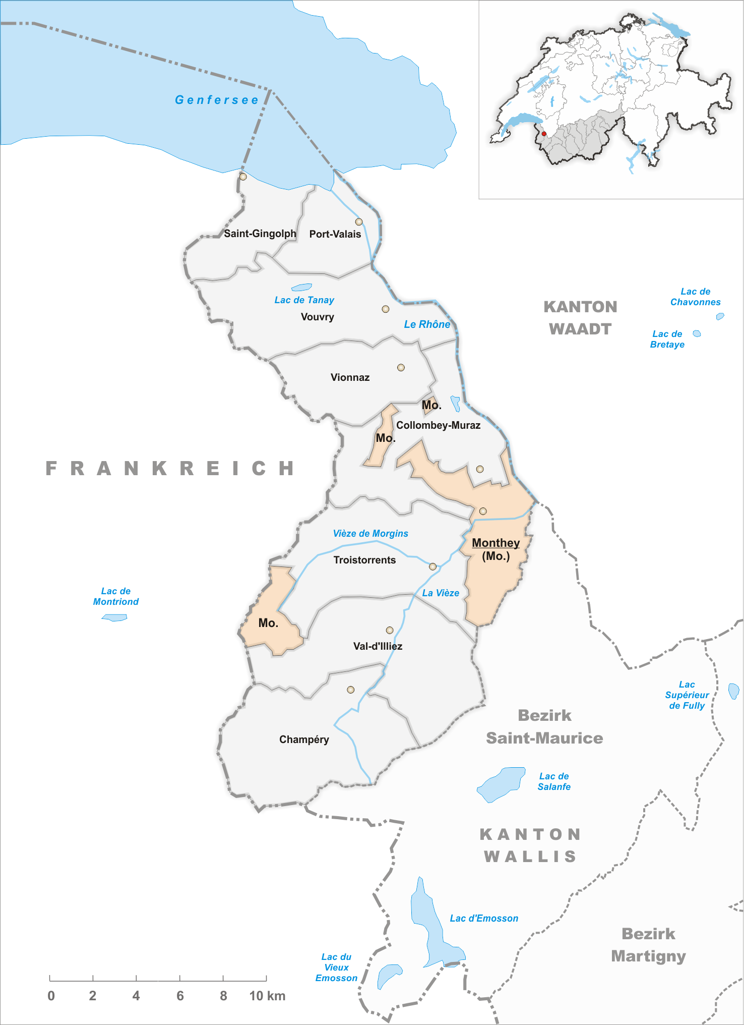 Municipality Monthey